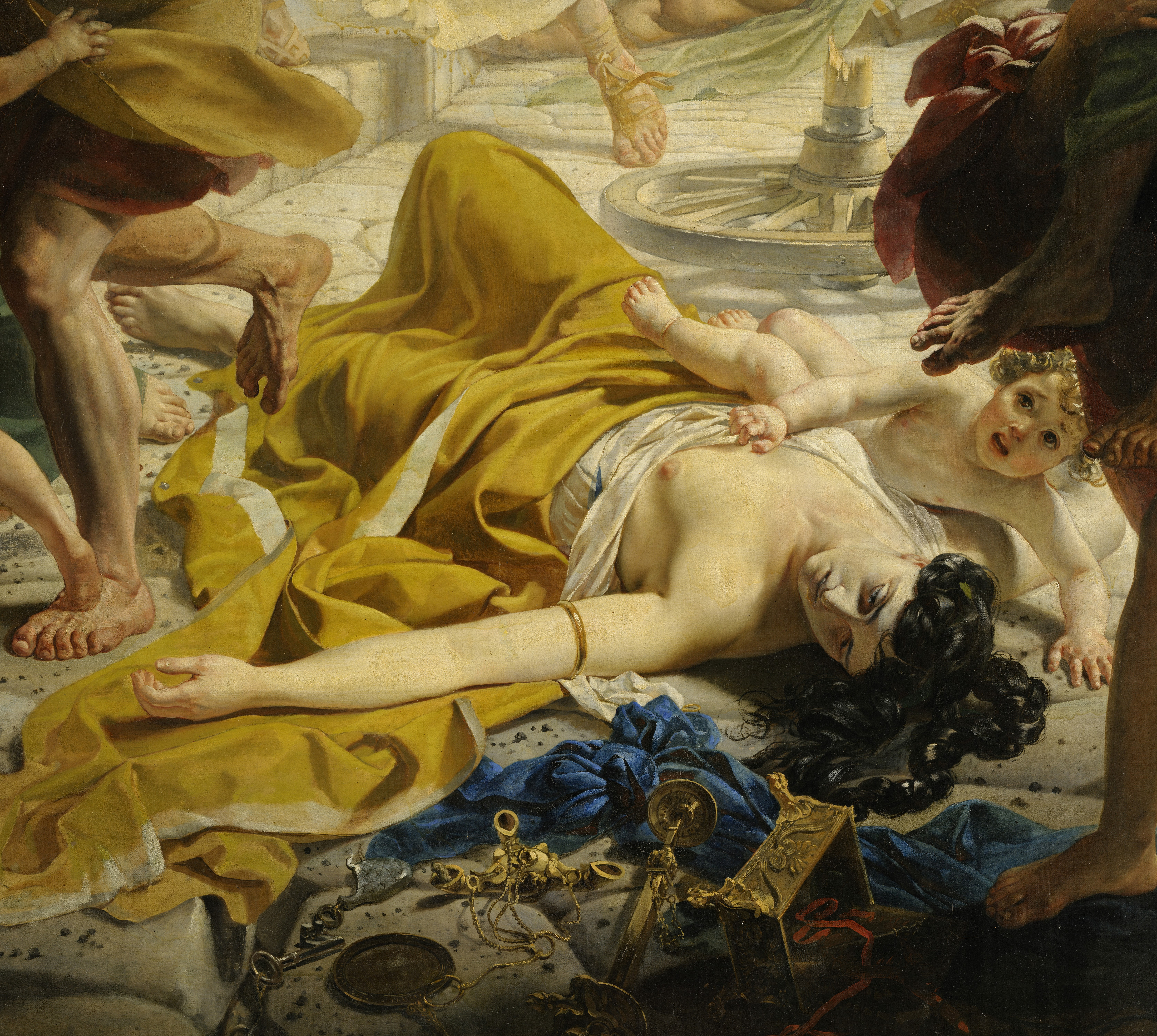 Detail of "The last day of Pompeii" (by Karl Bryullov, 1833, Russian Museum)